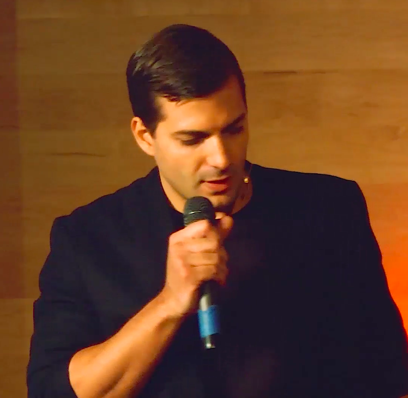 Artist Massimo Agostinelli at the Tamayo Museum for T­E­Dx­Bosque­De­Chapultepec in Mexico City in 2019.